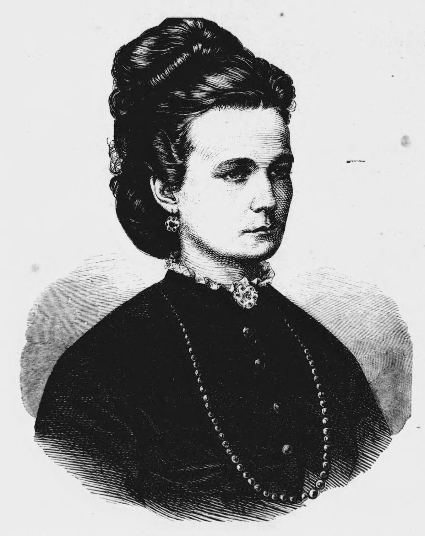 Portrait of Milka Grgurova-Aleksić (1840 - 1924), Serbian actress. Captioned as "tragic lover from Belgrade theater"